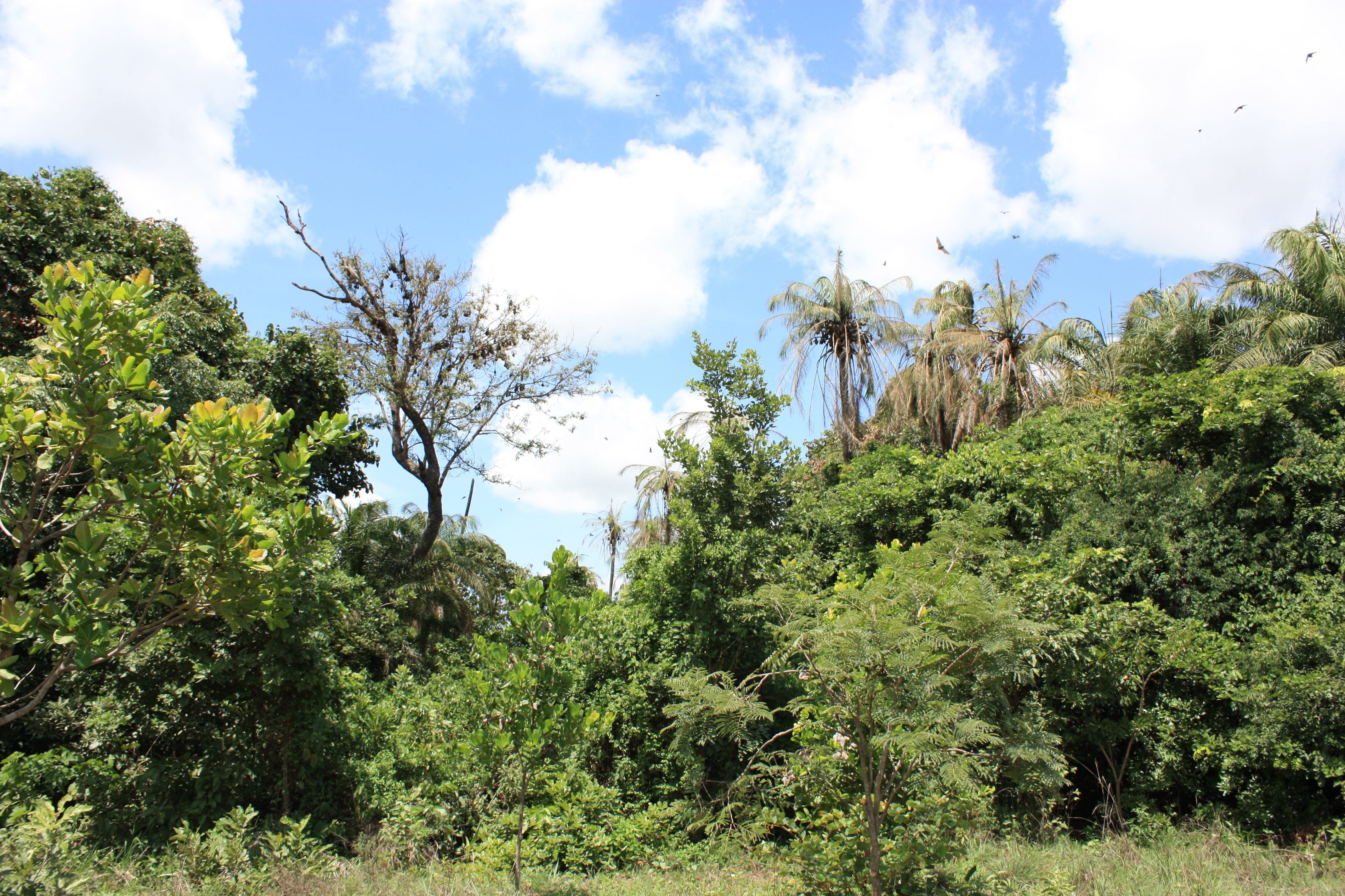 Lera forest, near Sindou, Burkina Faso